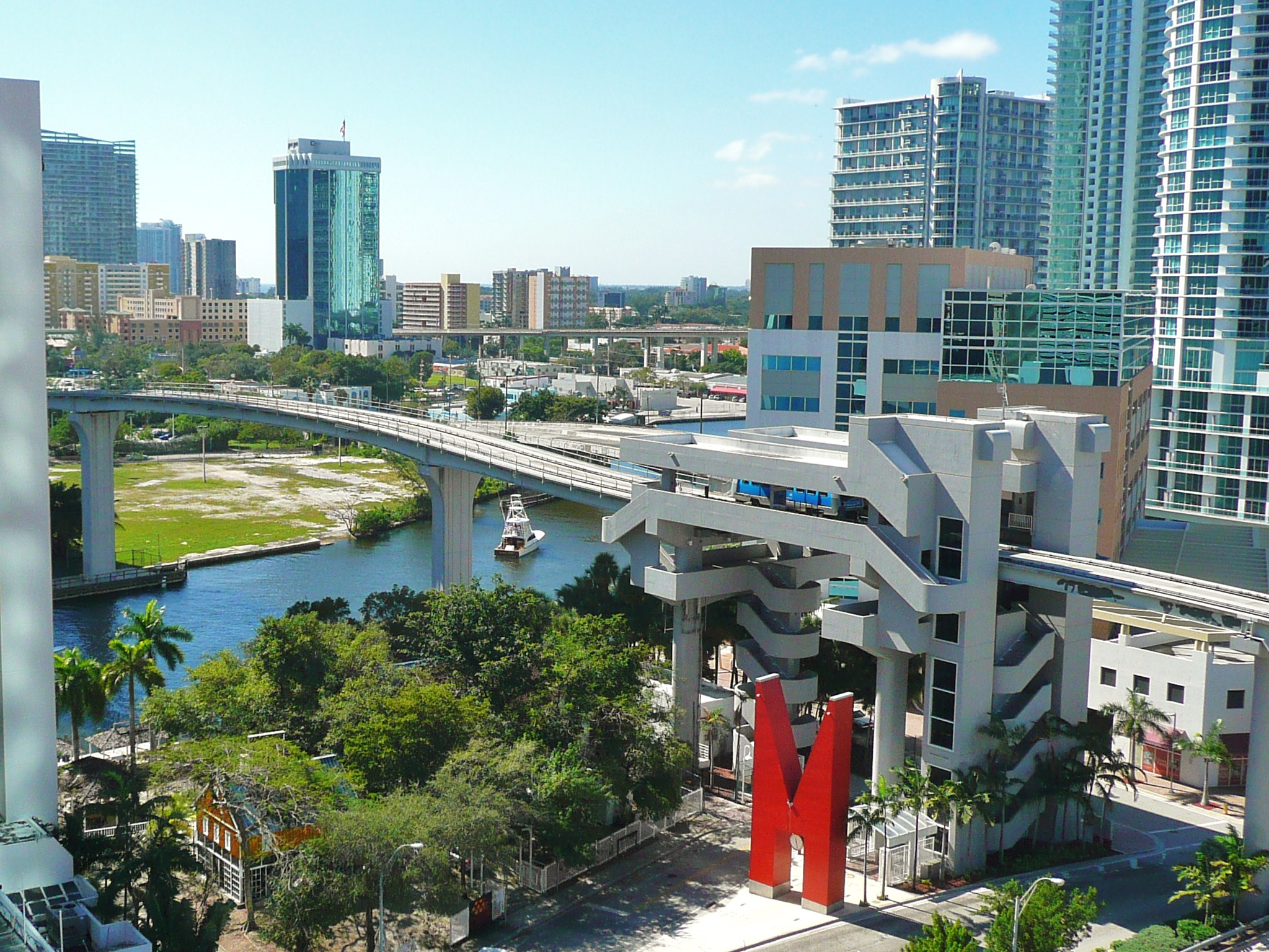 Riverwalk station in Downtown Miami, Florida, United States.